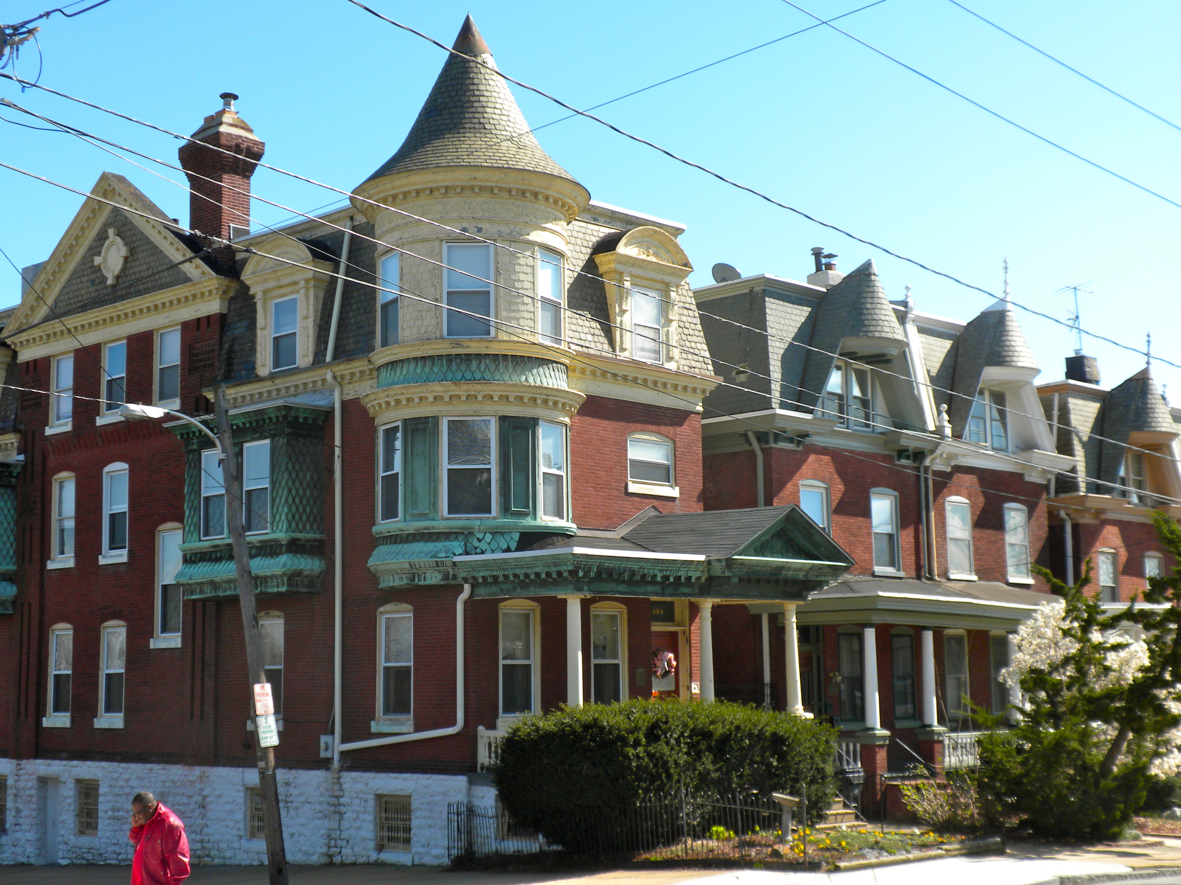 Houses in Eighth Street Park Historic District in Wilmington Delaware on NRHP since August 4, 1983. The district is roughly bounded by 6th, 10th, Harrison, and Broom Sts. These houses are on Broom looking South from 7th.